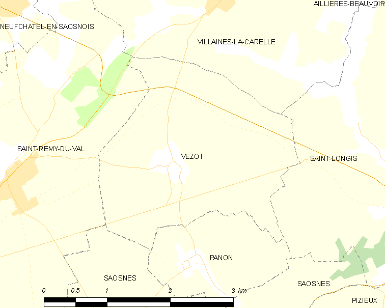 Map of French municipality